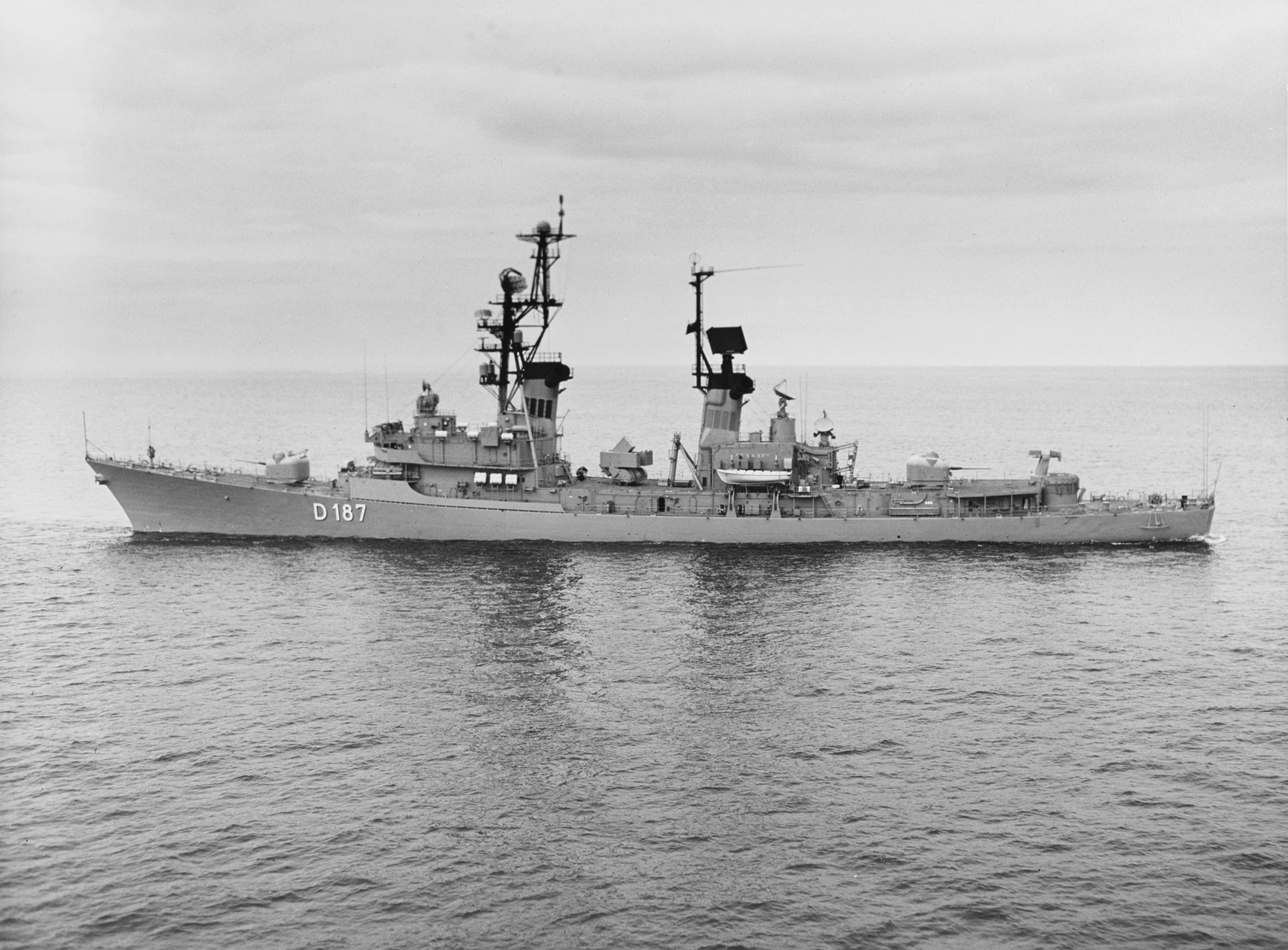 The West German Navy guided missile destroyer Rommel (D 187) underway off Bath, Maine (USA), on 31 March 1970. While under construction, the ship was assigned U.S. Navy hull number DDG-30. Rommel was commissioned on 2 May 1970.